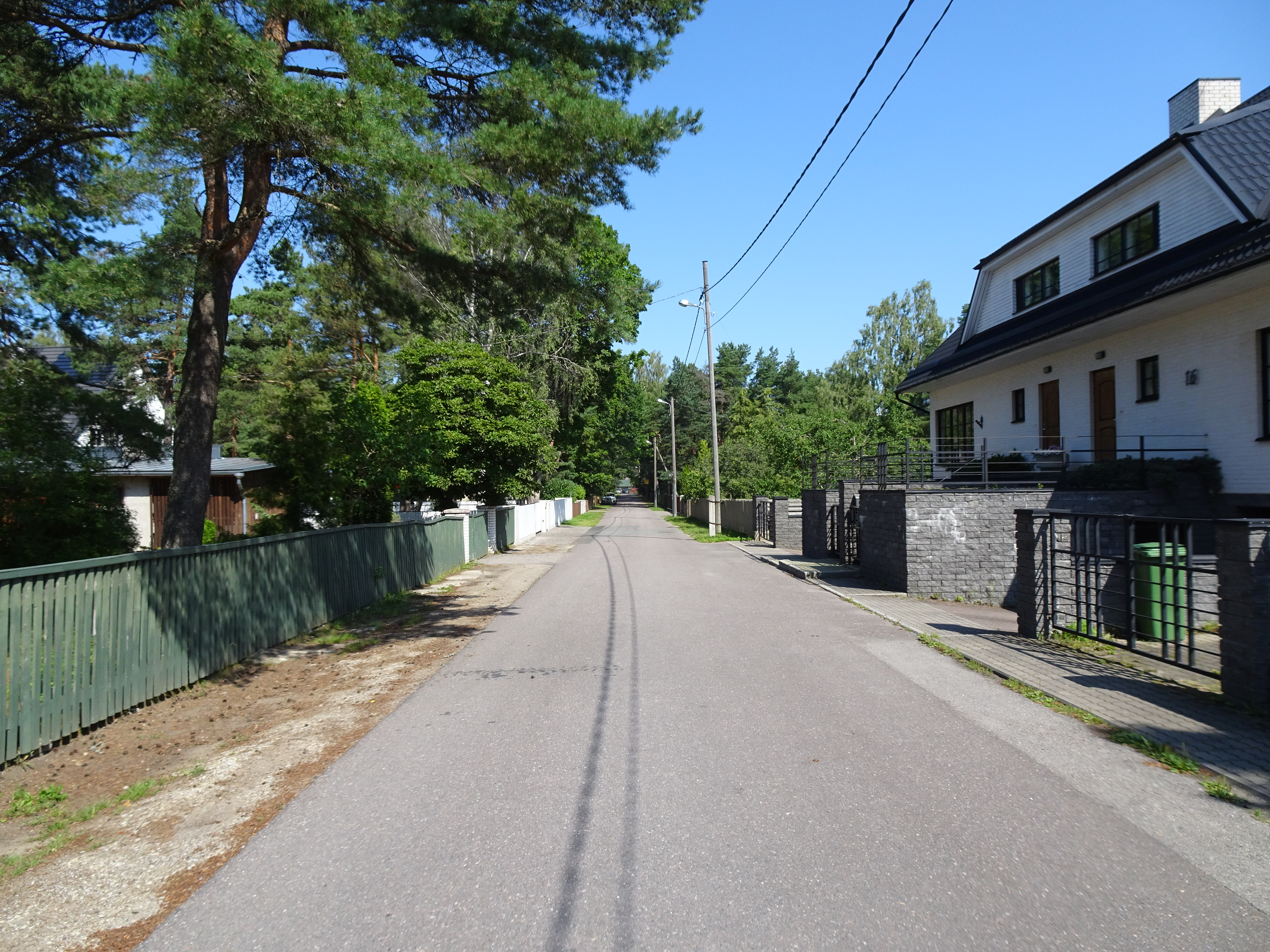 Lehtpuu Street in Tallinn, Estonia